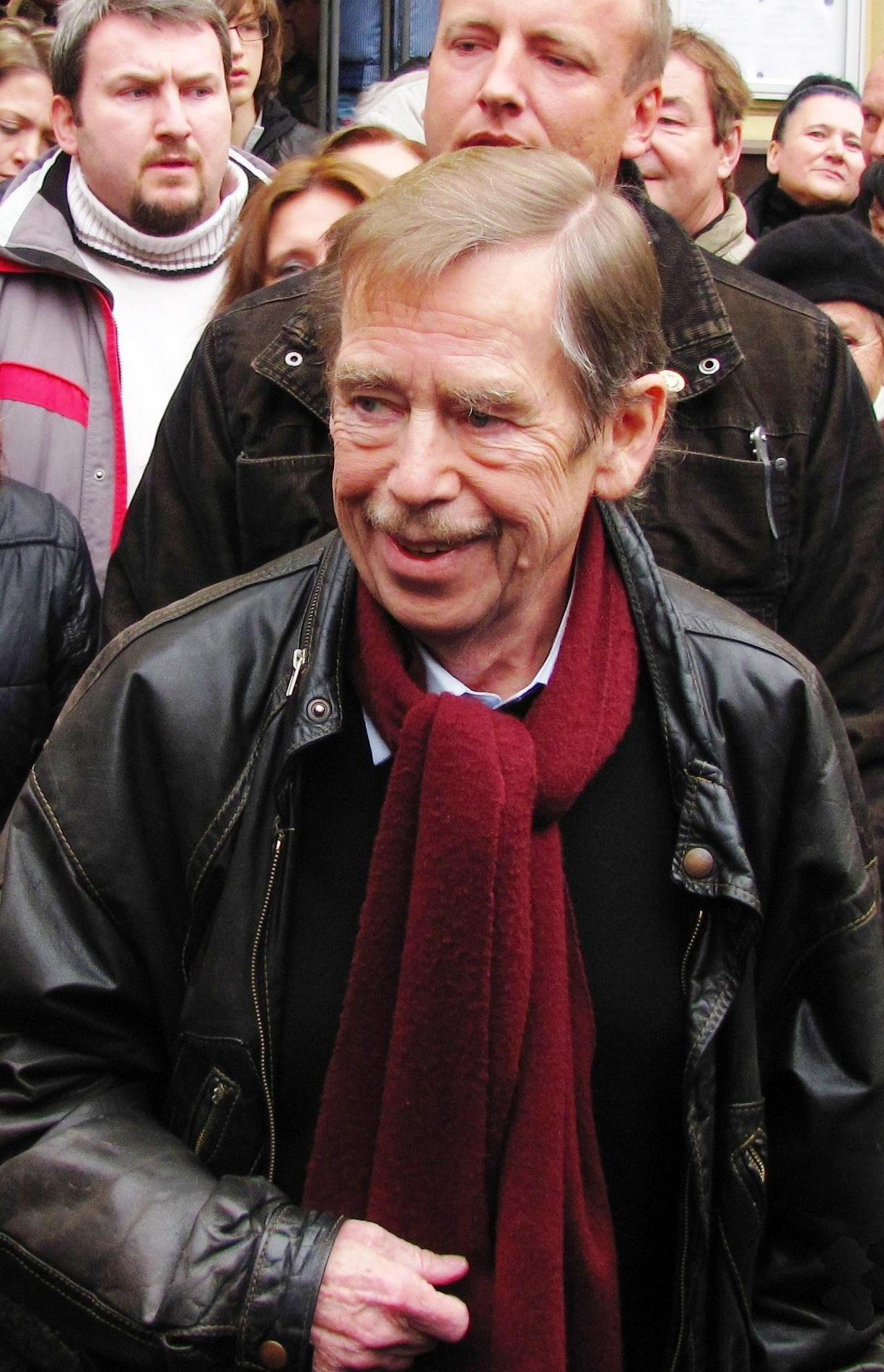 Václav Havel, Fmr.President of the Czech Republic at Velvet Revolution Anniversary in 2010 (Národní Street, Prague)